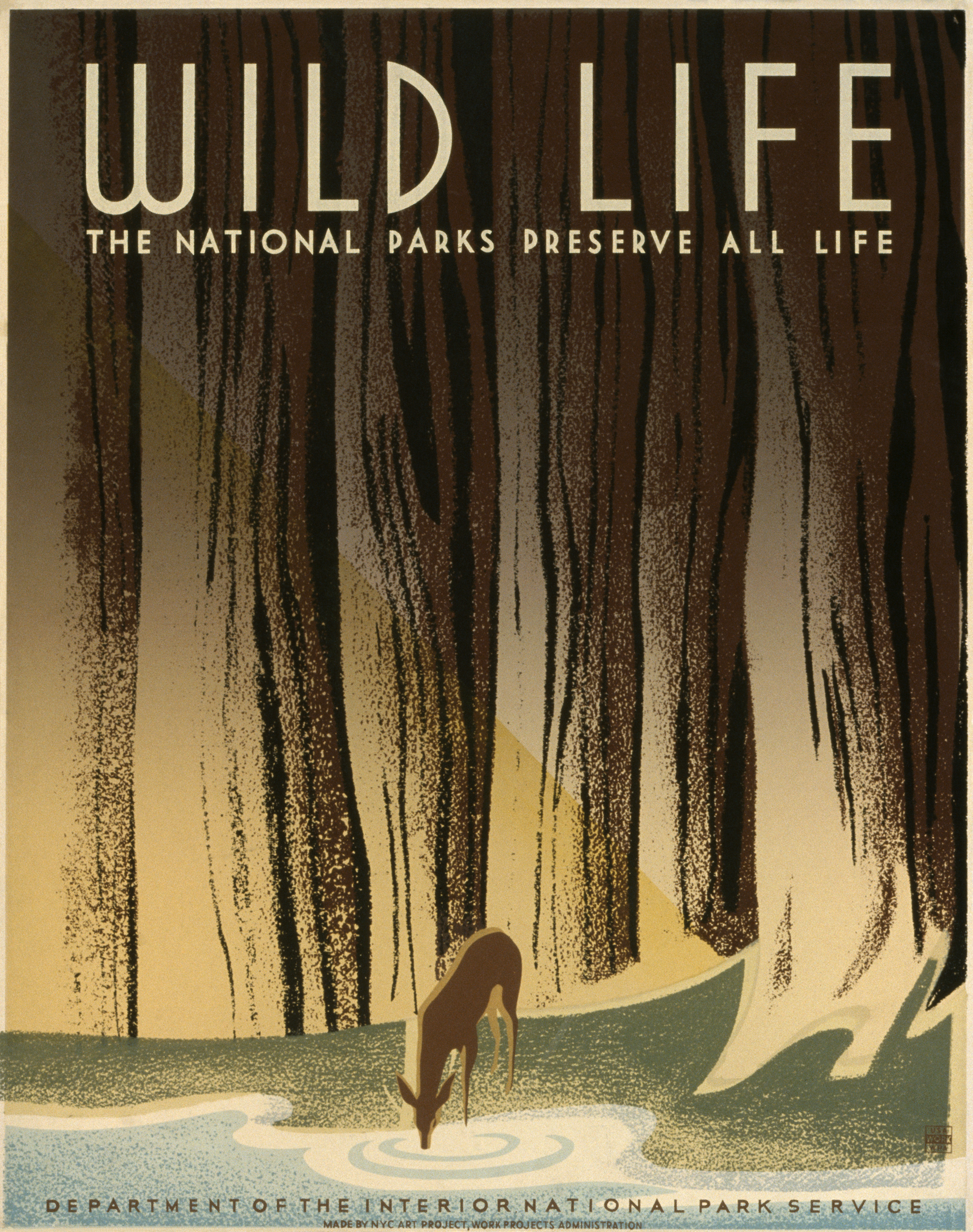 "Wild life The national parks preserve all life." Poster for United States National Park Service, showing a deer drinking from a stream in the forest. 1 print on board (poster): silkscreen, color.